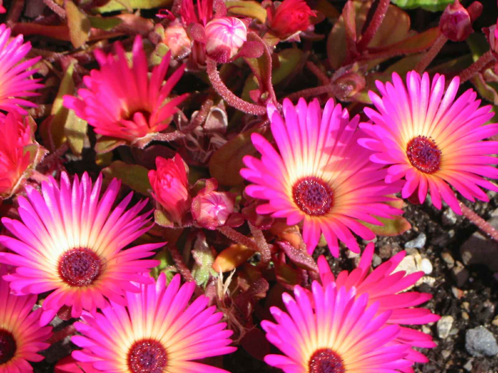 Livingstone daisy